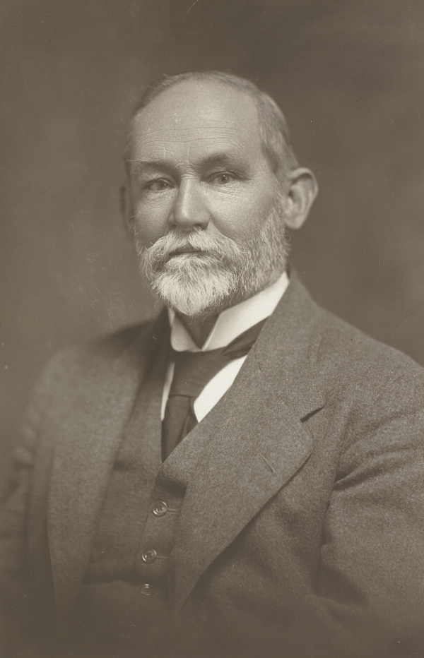 William Henry Dudley Le Souef. Photographic print : gelatin silver, toned ; 14.5 x 9.4 cm., on mount. Original owned and digitized by the State Library of Victoria (Accession No: H31890, Image No: a15641).